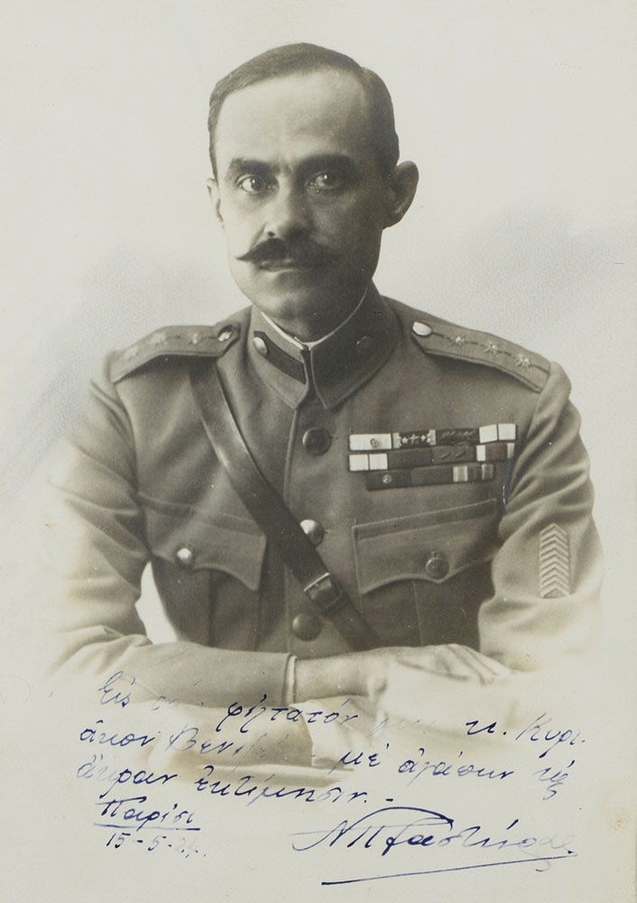 Nikolaos Plastiras, Greek Army officer and later Prime Minister of Greece.